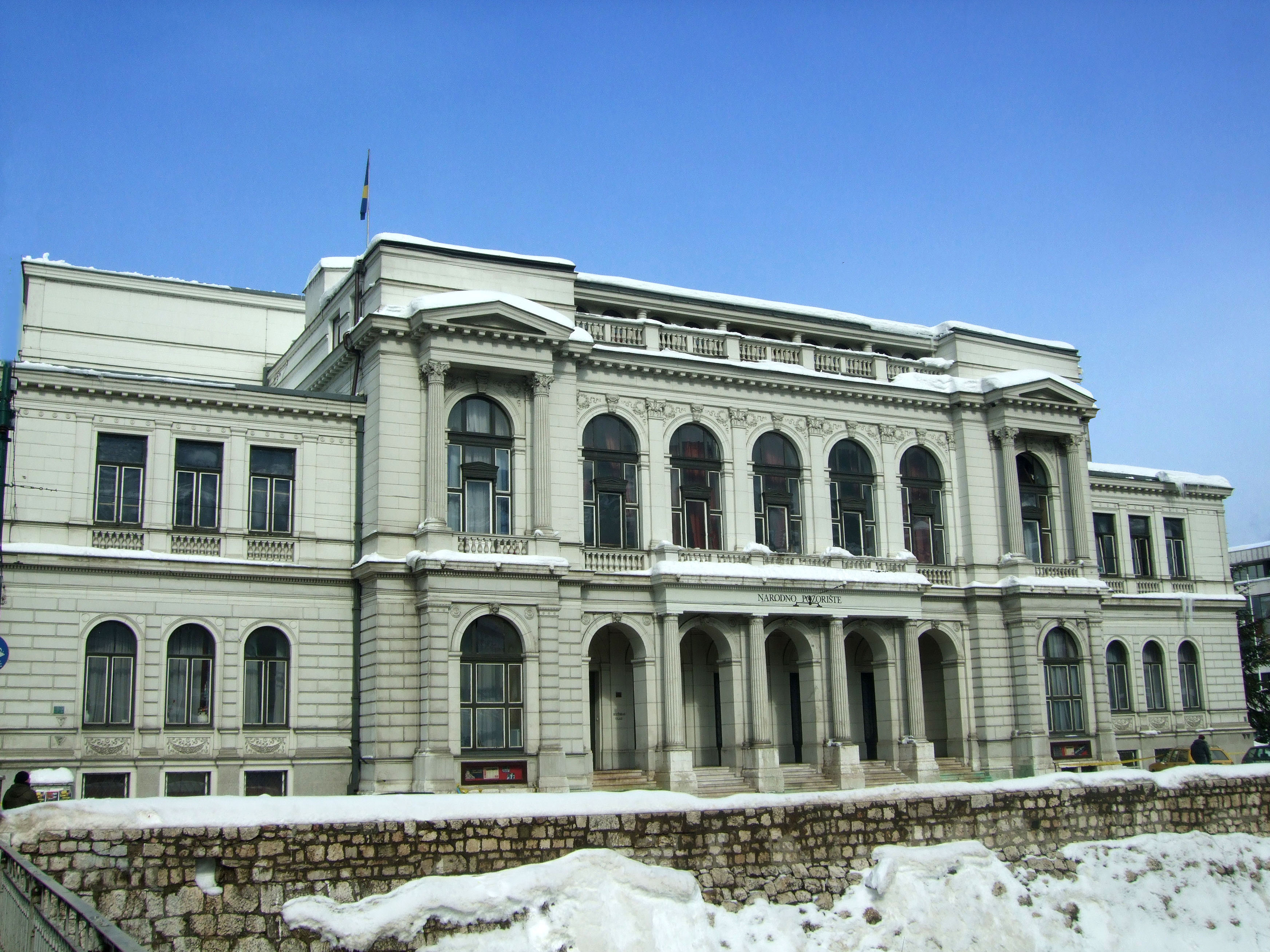 Building of the Sarajevo National Theatre designed by Karel Pařík